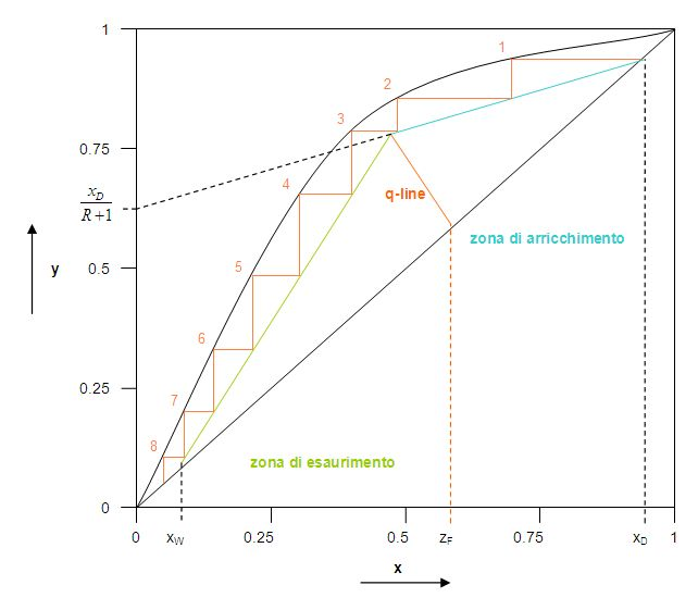 McCabe-Thiele method